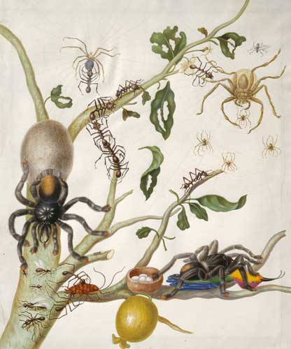 Spiders, ants and hummingbird on a branch of a guava; (Tarantula: Avicularia avicularia)